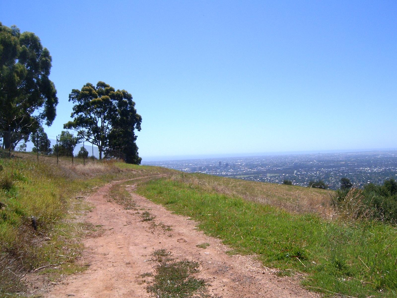 Walking Track around Mount Osamond